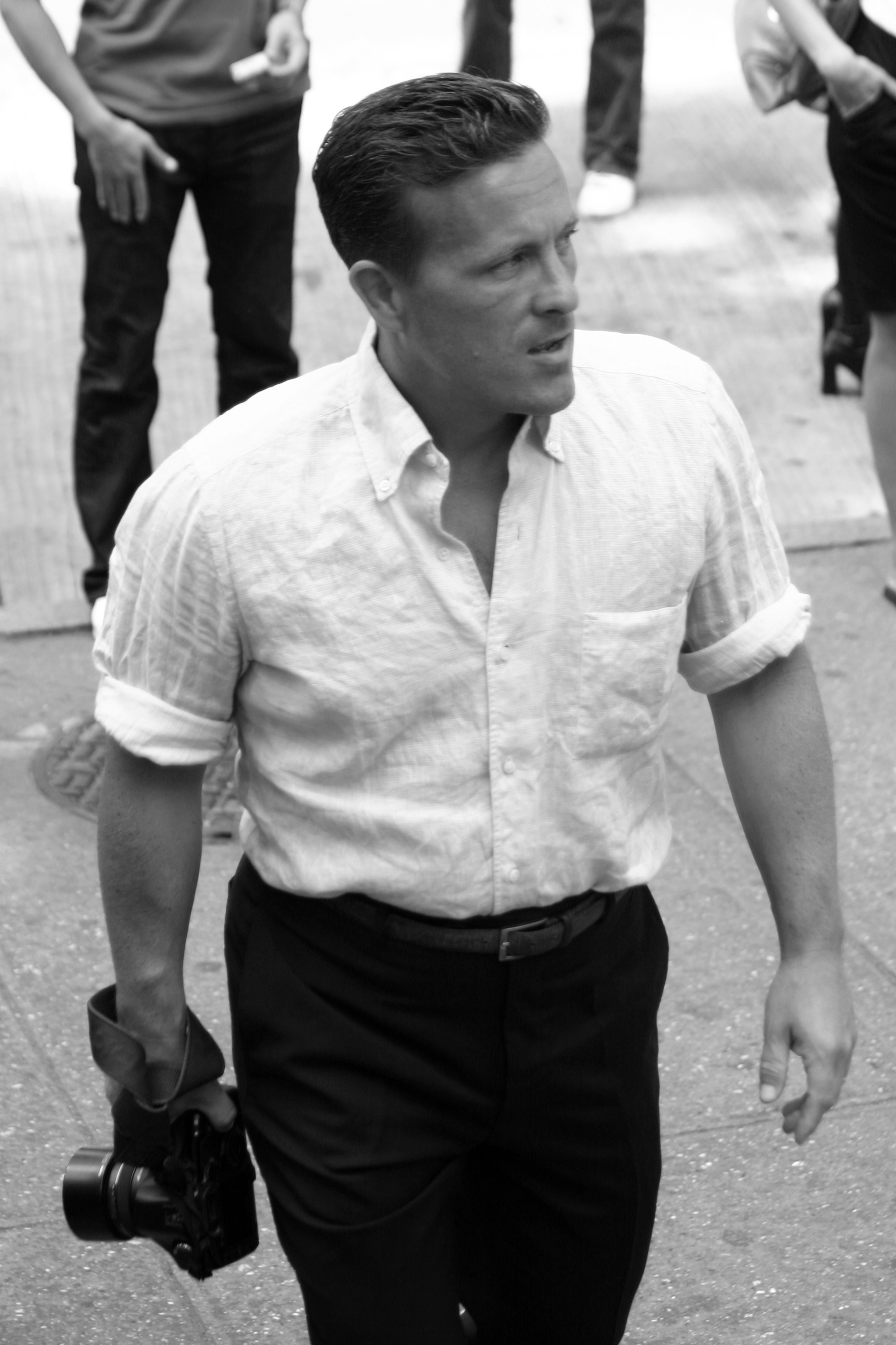 Scott Schuman, the Sartorialist, in action outside the Bryant Park tents during Mercedez-Benz Fashion Week, September 9, 2007.